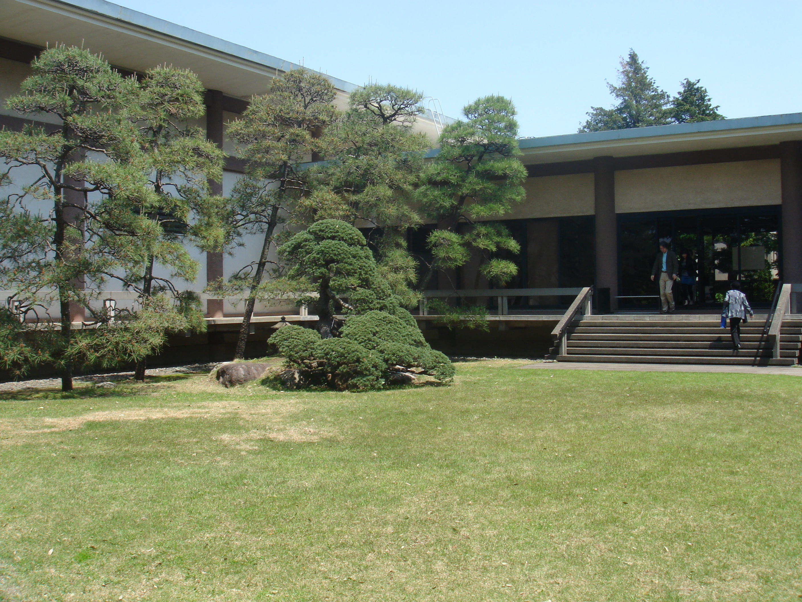 Gotoh Museum in Kaminoge, Setagaya, Tokyo, Japan. The picture is taken from the garden side with the main exhibition hall on the left.